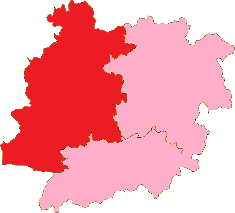 Map Of Lot-et-Garrones 2nd Constituency shown within Lot-et-Garrone